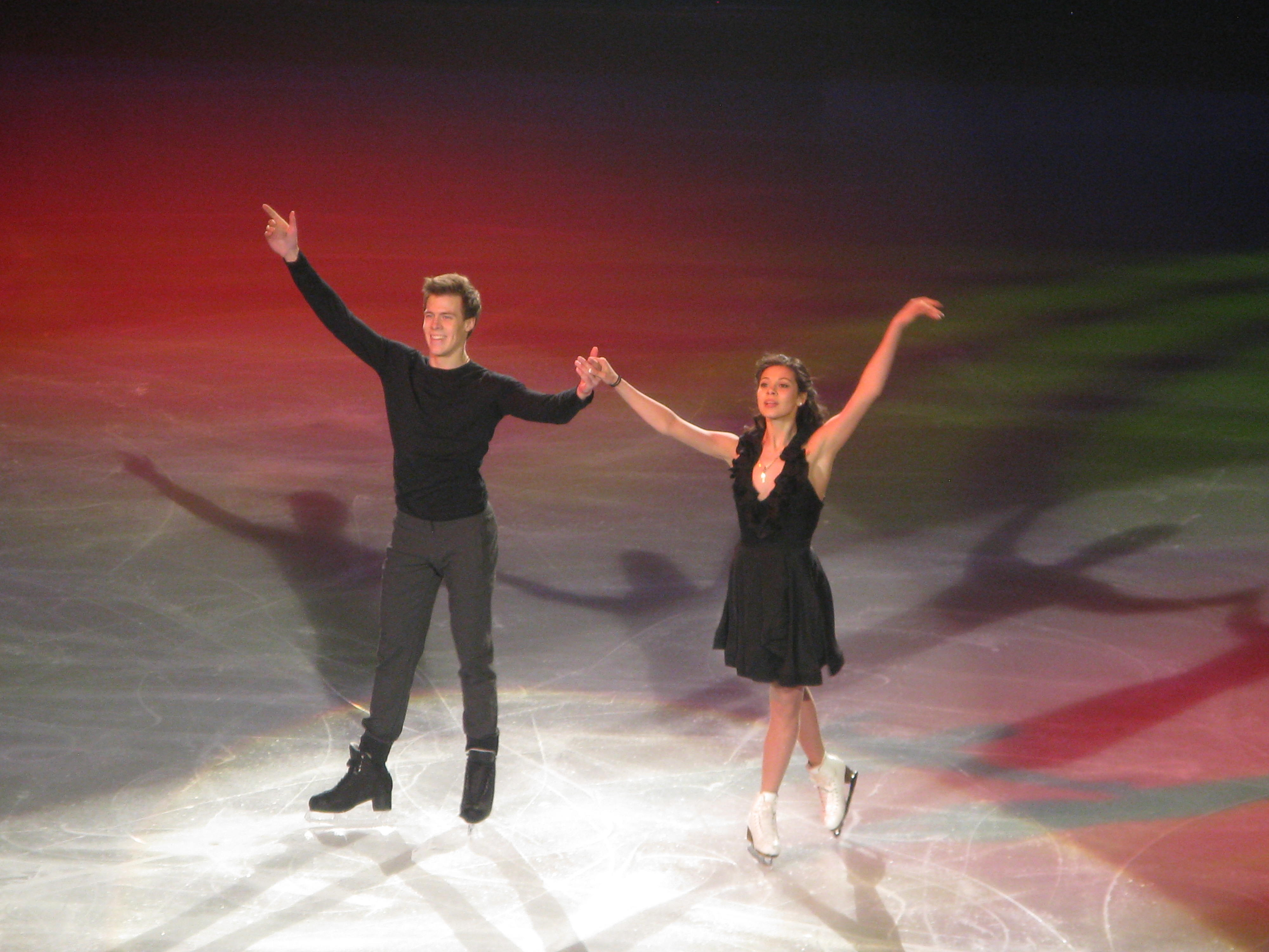 Skaters Elena Ilinykh and Nikita Katsalapov at the figure skating gala exhibition of 2013 Trophée Éric Bompard in Bercy, Paris.